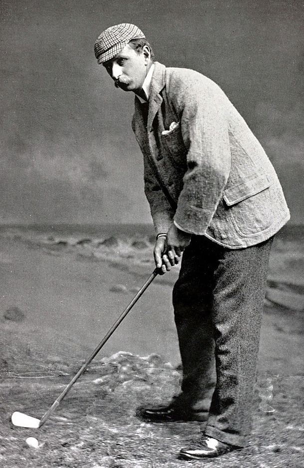 Sport, Golf, circa 1895, Johnny Laidley, (sometimes spelt Laidlay) the British Amateur Golf Champion in 1889 and 1891